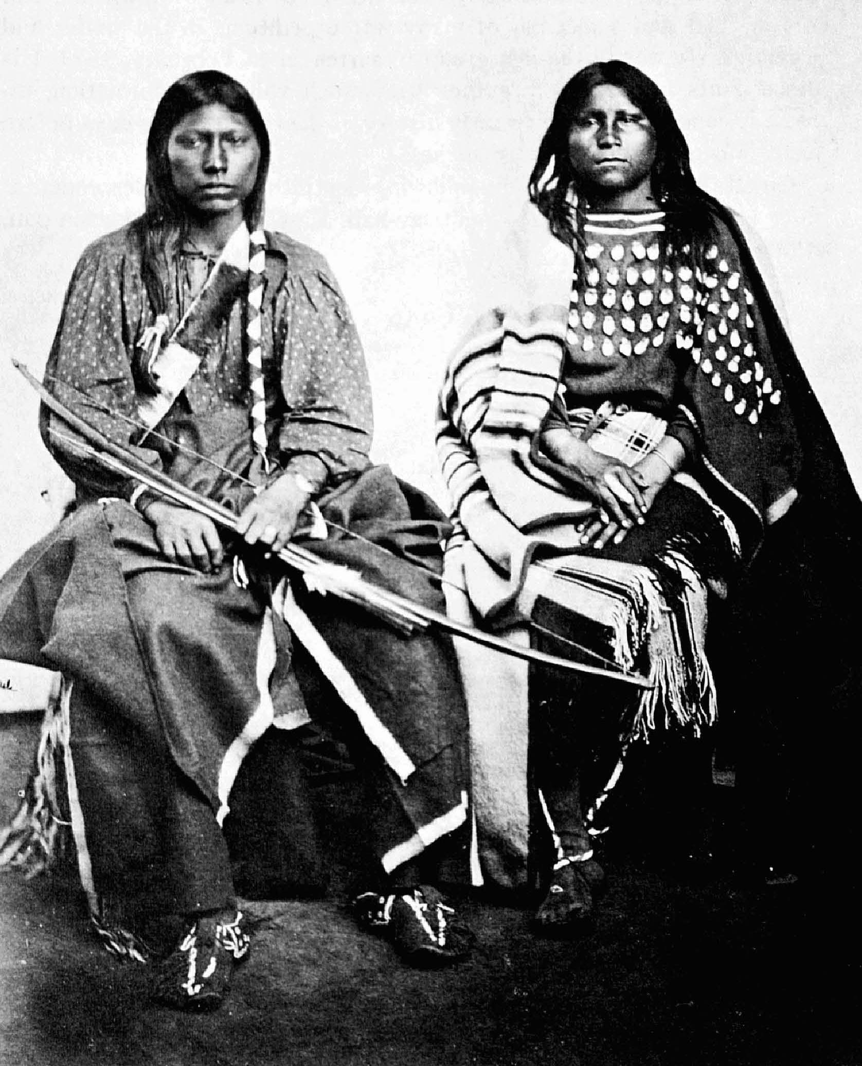 Eonah-pah and Wife “Eonah-pah (Trailing-the-Enerny) was the only Kiowa who was in the Battle of the Washita; he had been spending the night in Black Kettle's camp when Custer attacked. He was a very active warrior, taking part in most of the better-known Kiowa expeditions against the Utes, Texans, and Mexicans. He married two of Satanta's daughters, one of whom is shown here with him. This woman, Alma, who was still living in 1935, was then a big, jolly percon, very friendlly and well liked. Notice the large number of elk teeth on her dress. Each of these was worth several dollars. It is to be noted also that she bears a resemblance to her famous father.” —Smithsonian Institution, Bureau of American Ethnology, In: Wilbur Sturtevant Nye, Plains Indian raiders : the final phases of warfare from the Arkansas to the Red River, with original photographs by William S. Soule. University of Oklahoma Press, 1st edition, 1968, ISBN 0806111755, p58.